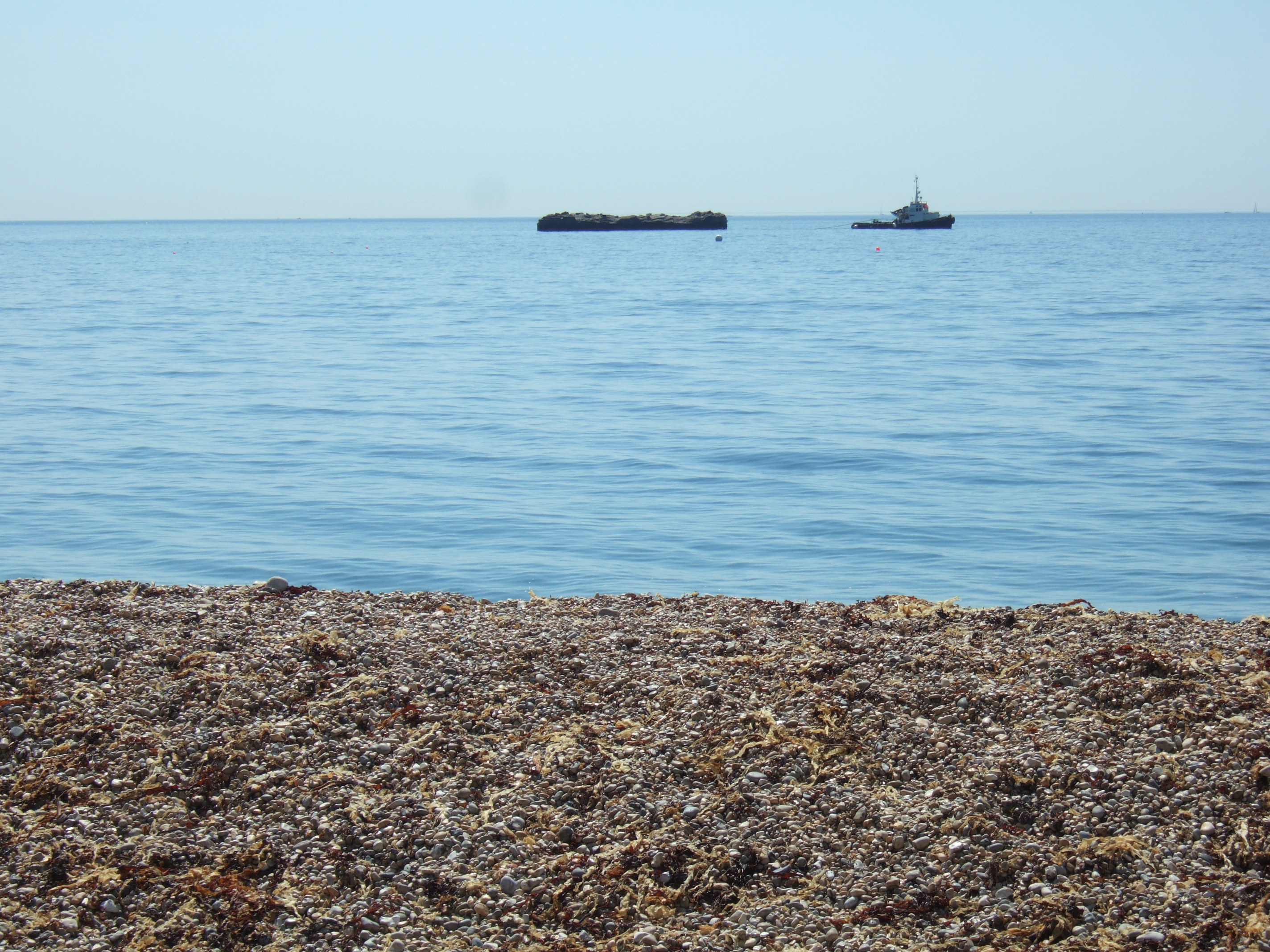 Nowhereisland at Ringstead Bay, Dorset, England 2012-07-25, as it was being towed to Weymouth Bay as part of the 2012 Cultural Olympiad